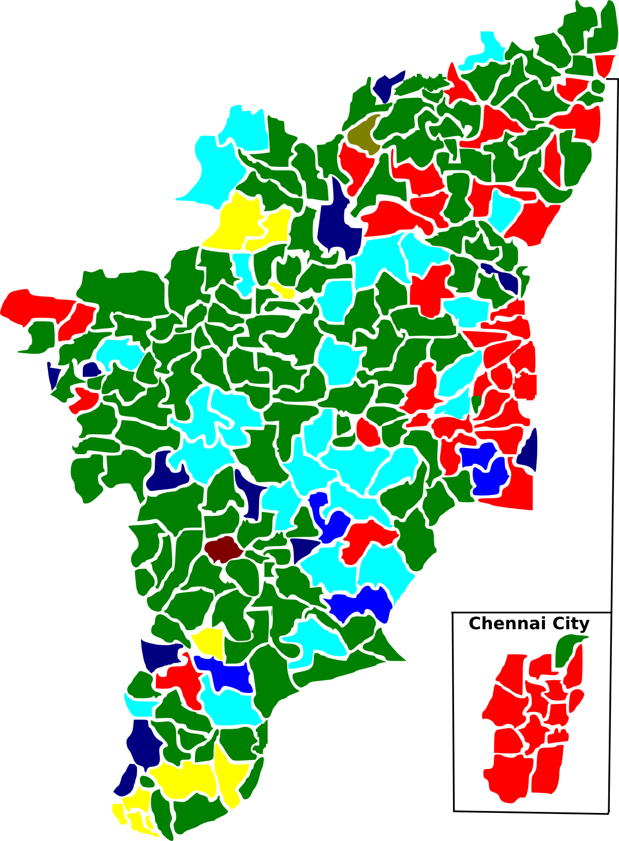 made election map using borders from ECI website using Inkscape. Results based on ECI website. [1]